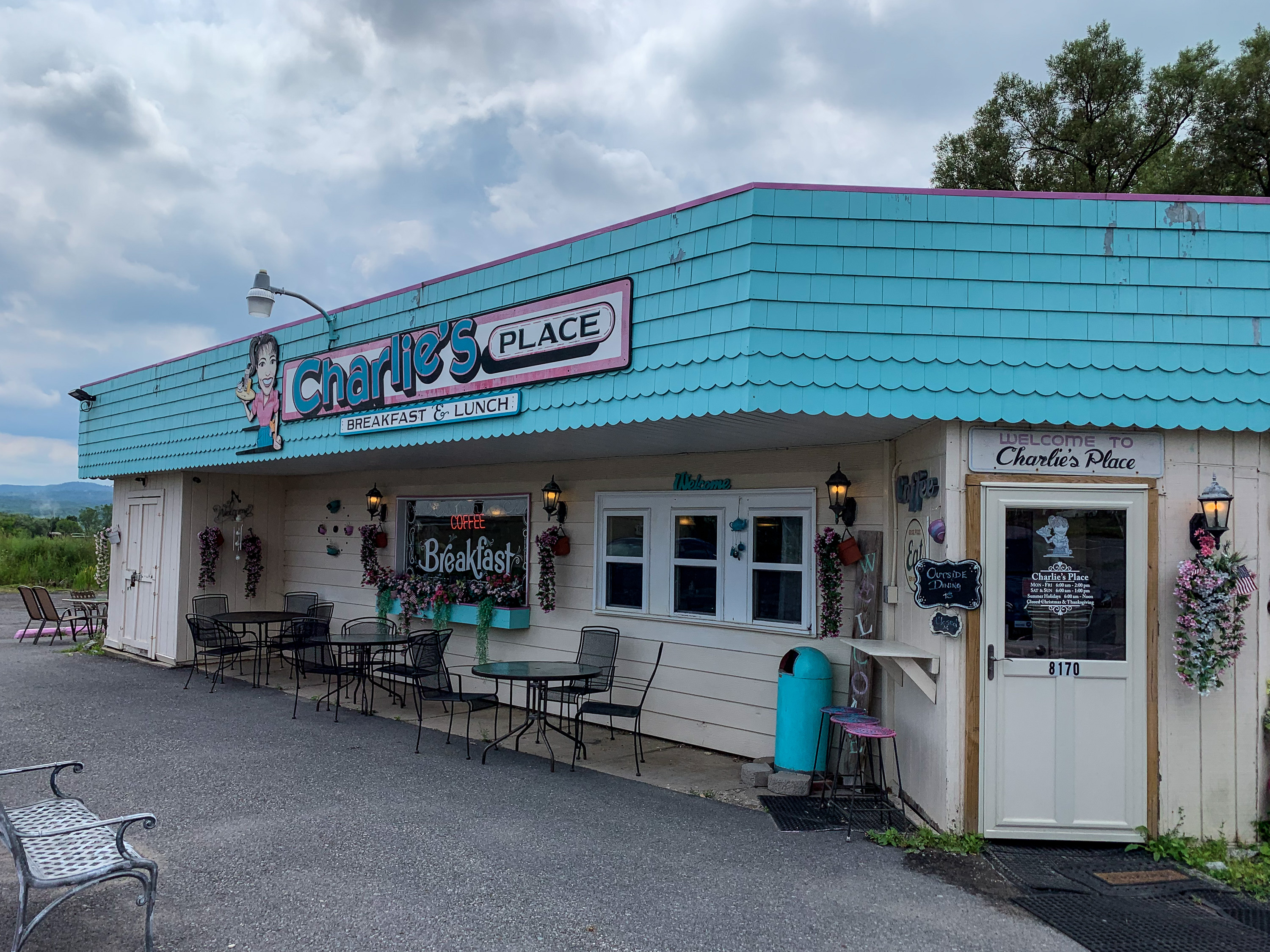 Charlie's Place diner in the Village of Clinton New York (Oneida County)